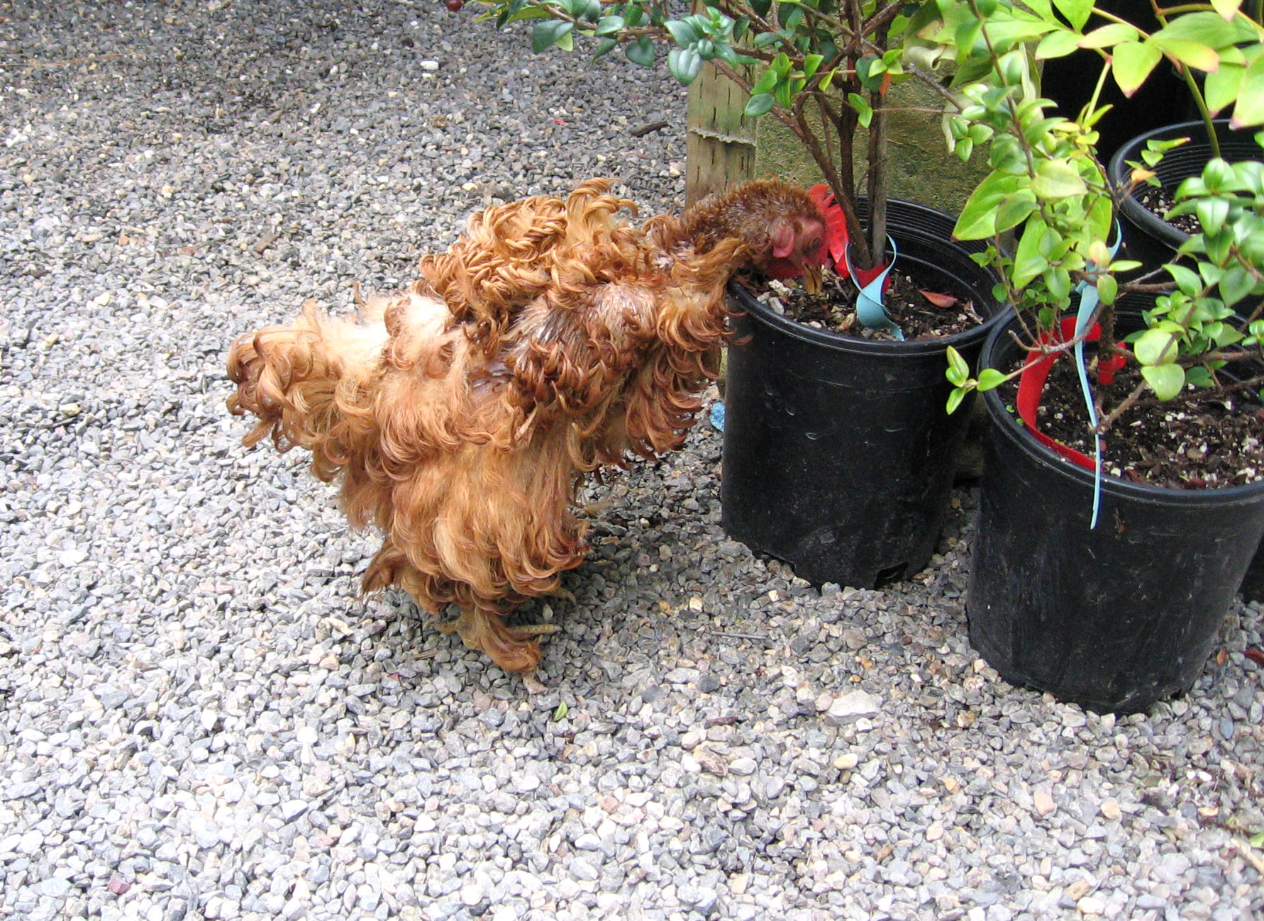 The resident Frizzle hen at a Portland Oregon (plant) nursery.